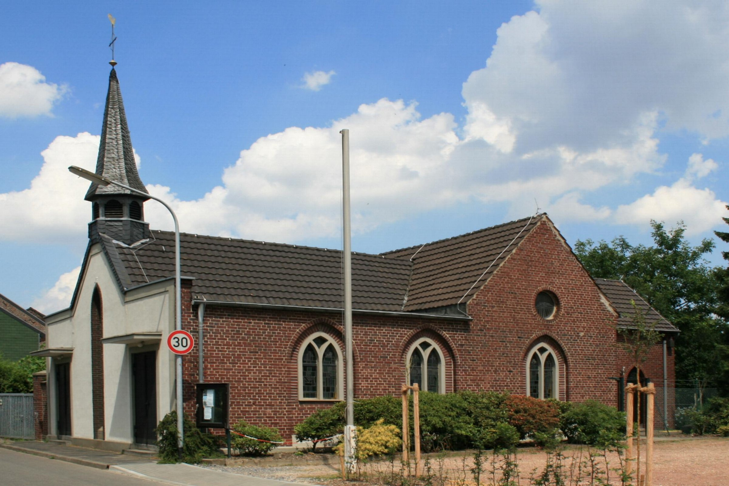 Cultural heritage monument No. G 052 in Mönchengladbach